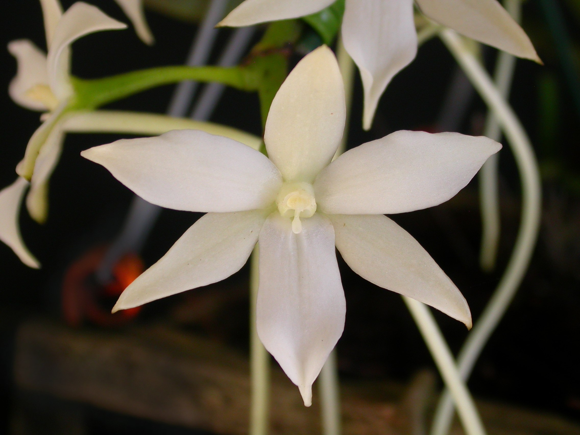 Aerangis articulata